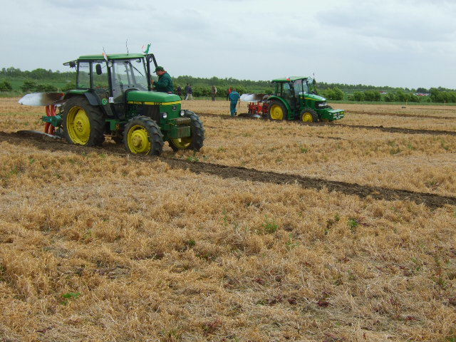 Setting the plough. Two of the competitors making minor alterations,to try and score more points for perfect ploughing,the winners will then enter the world ploughing competition.